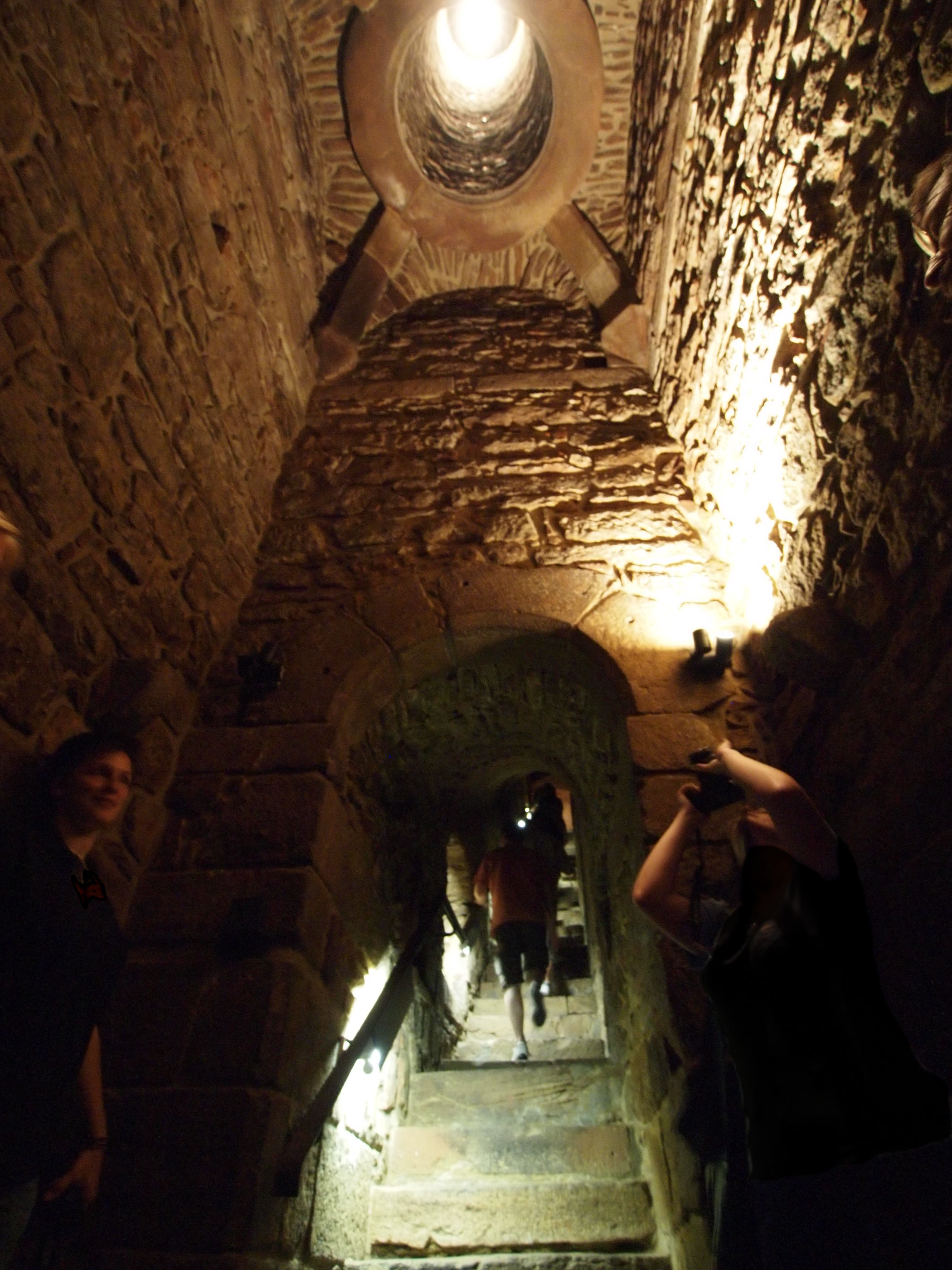 Old mikveh in Offenburg, Germany